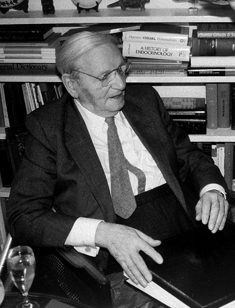 Wilhelm Feldberg, 90th birthday.